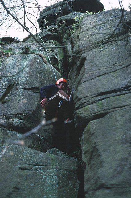 Thrutch. Traditional low grade gritstone climbing. Most hate chimneys, I love them, the thrutchier the best. Gardoms Edge.